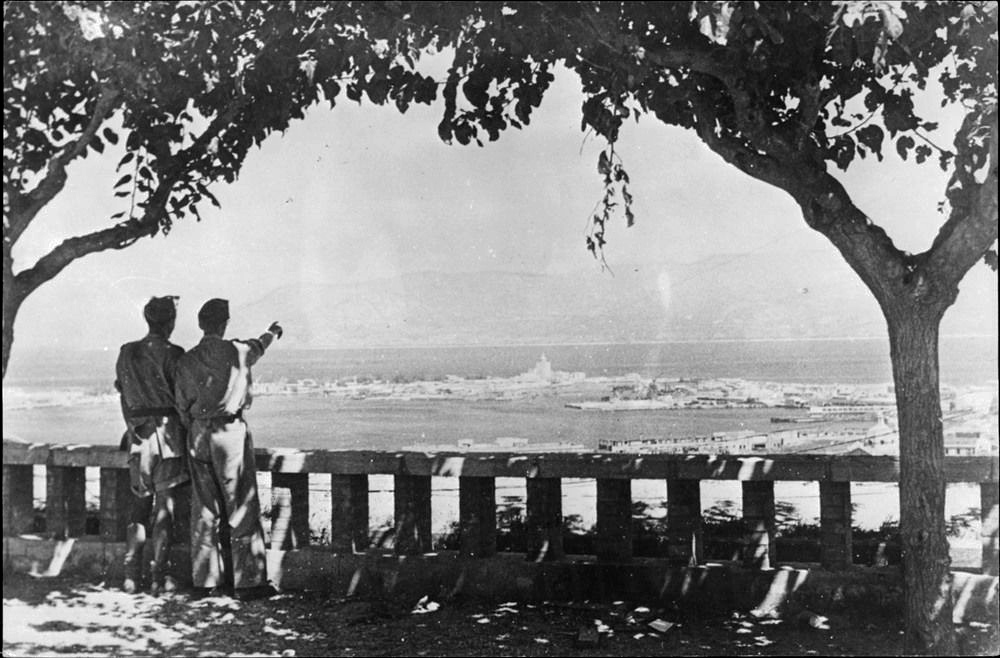 These Allied soldiers are looking over the town and harbour of Messina, Sicily, to Italy's mainland at the conclusion of the Allied 38-day campaign which liberated the Italian island.